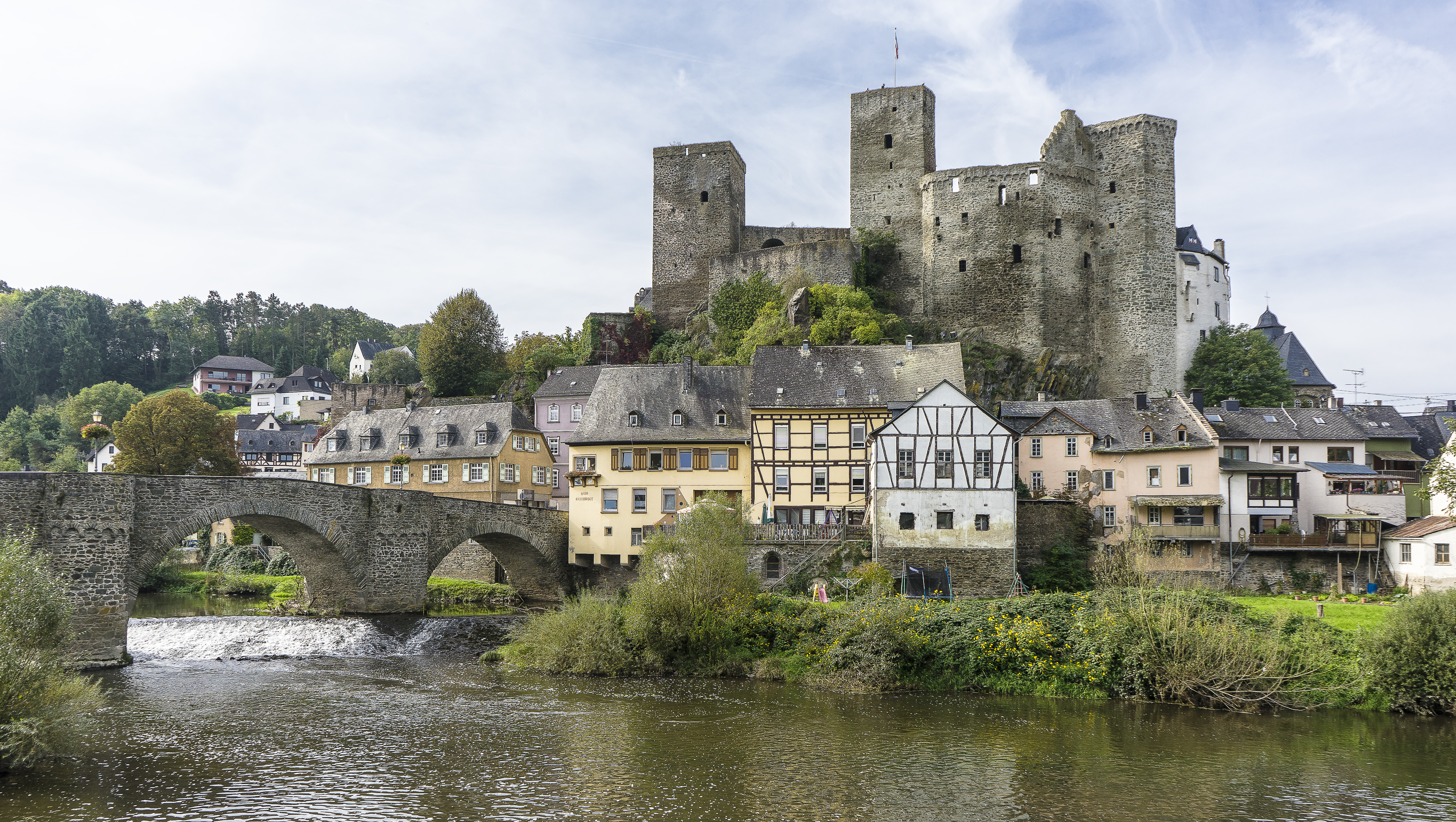 Castle Runkel and old bridge in Runkel at River Lahn/Hesse Germany